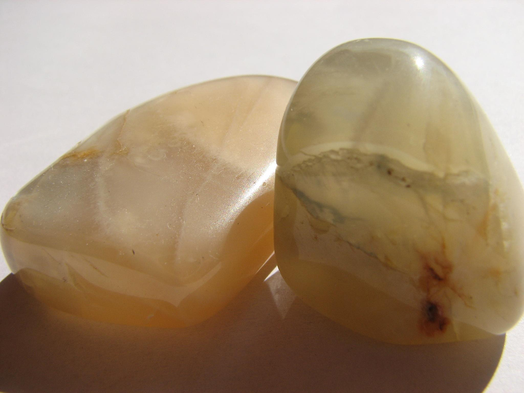 Tumbled moonstone, India